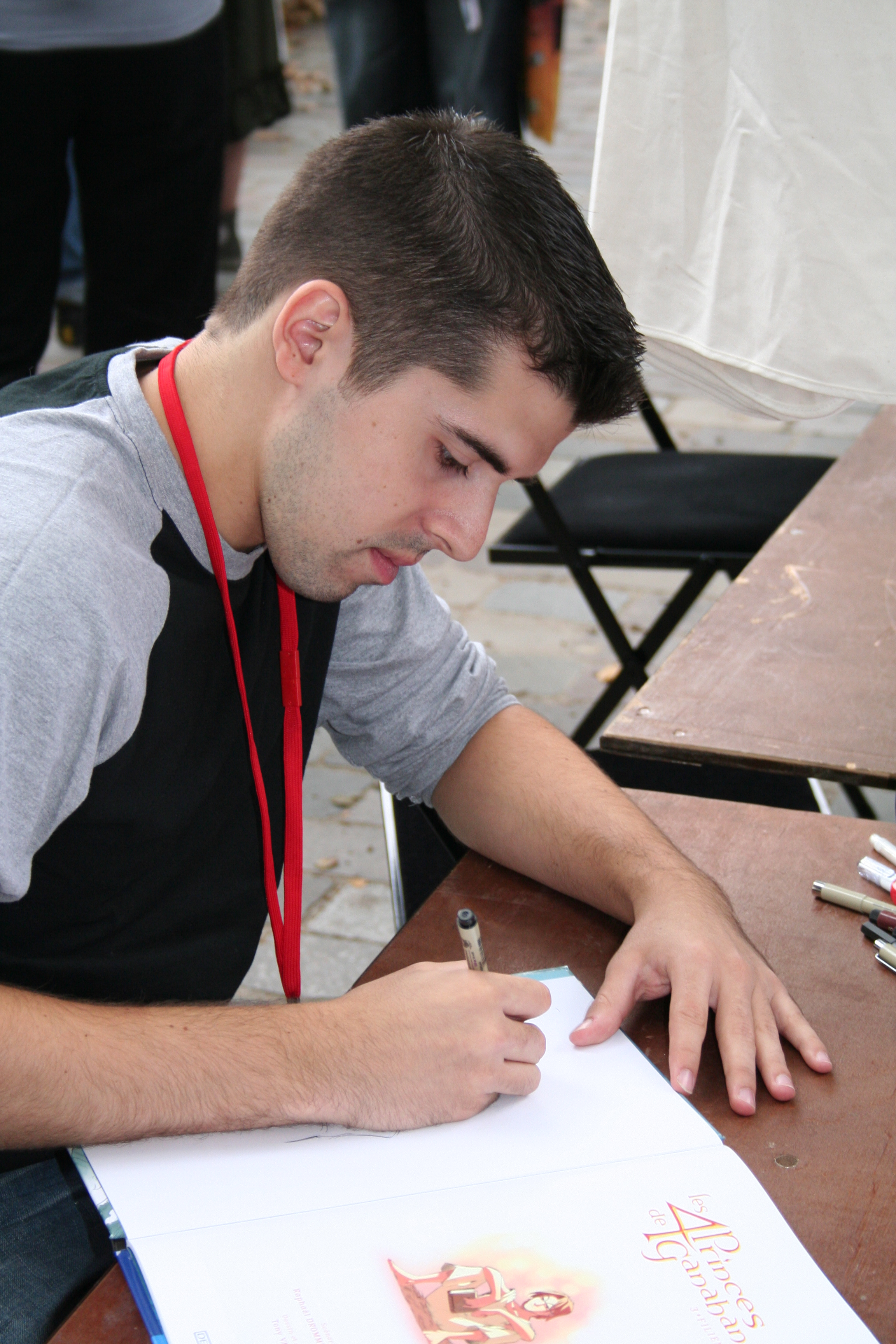 Autograph session with Tony Valente at Delcourt festival 2006 (Paris, France).